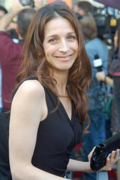 Marin Hinkle at a ceremony for Jon Cryer to receive a star on the Hollywood Walk of Fame in September 2011.